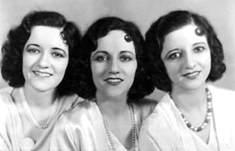 Photo of the singing group the Boswell Sisters in 1931. From left-"Vet", Connie and Martha.